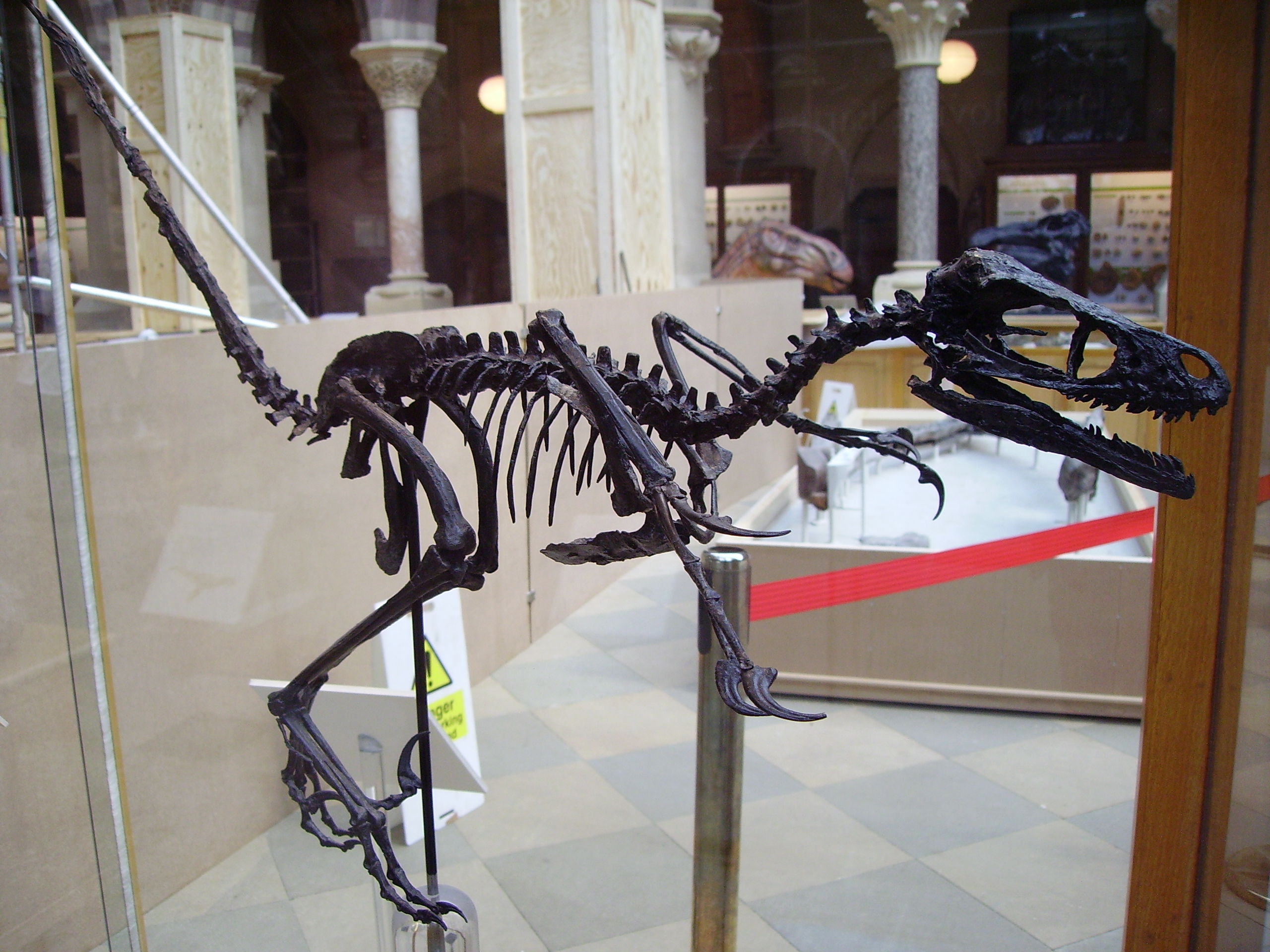 Photographer: User:Ballista